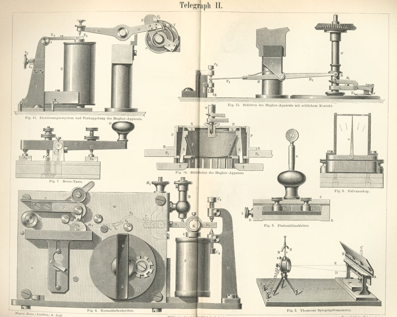 This is page 564 of 1044, in Volume 15 of the German illustrated encyclopedia Meyers Konversationslexikon, 4th edition (1885-1890), fraktur font.